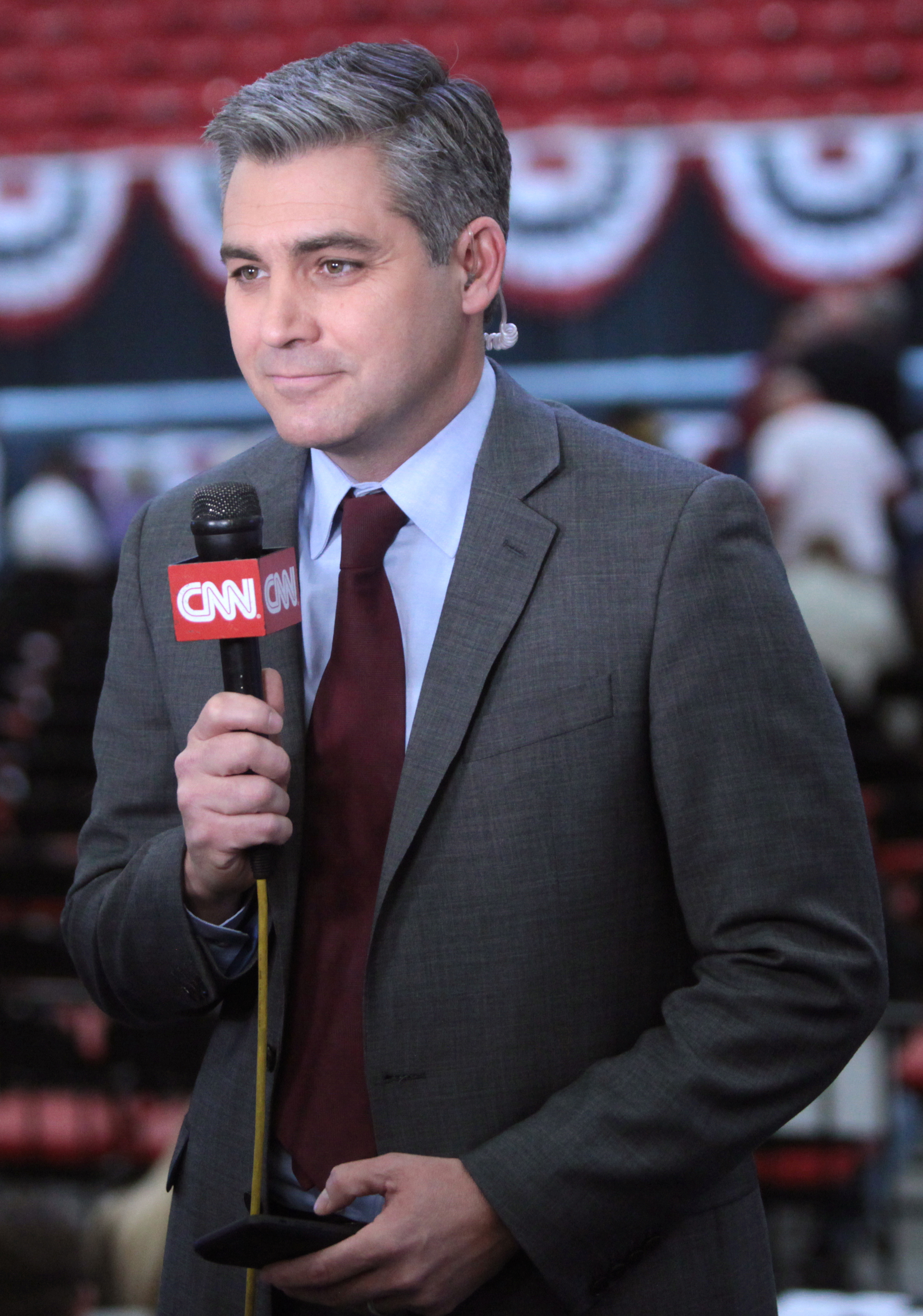 Jim Acosta speaking at a campaign rally for Donald Trump at the South Point Arena in Las Vegas, Nevada.